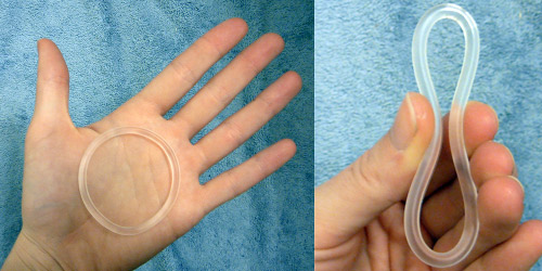 Vaginal birth control device NuvaRing